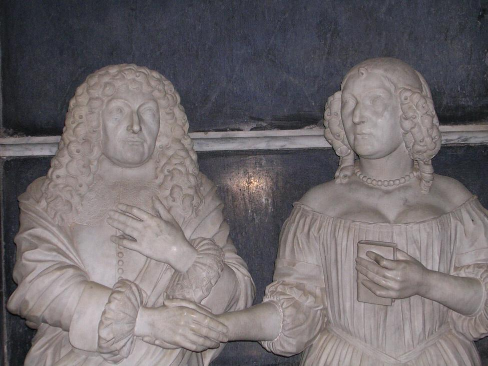 Tomb of Sir John Brownlow I. Belton Church. England. Photographed by uploader. June 2006.